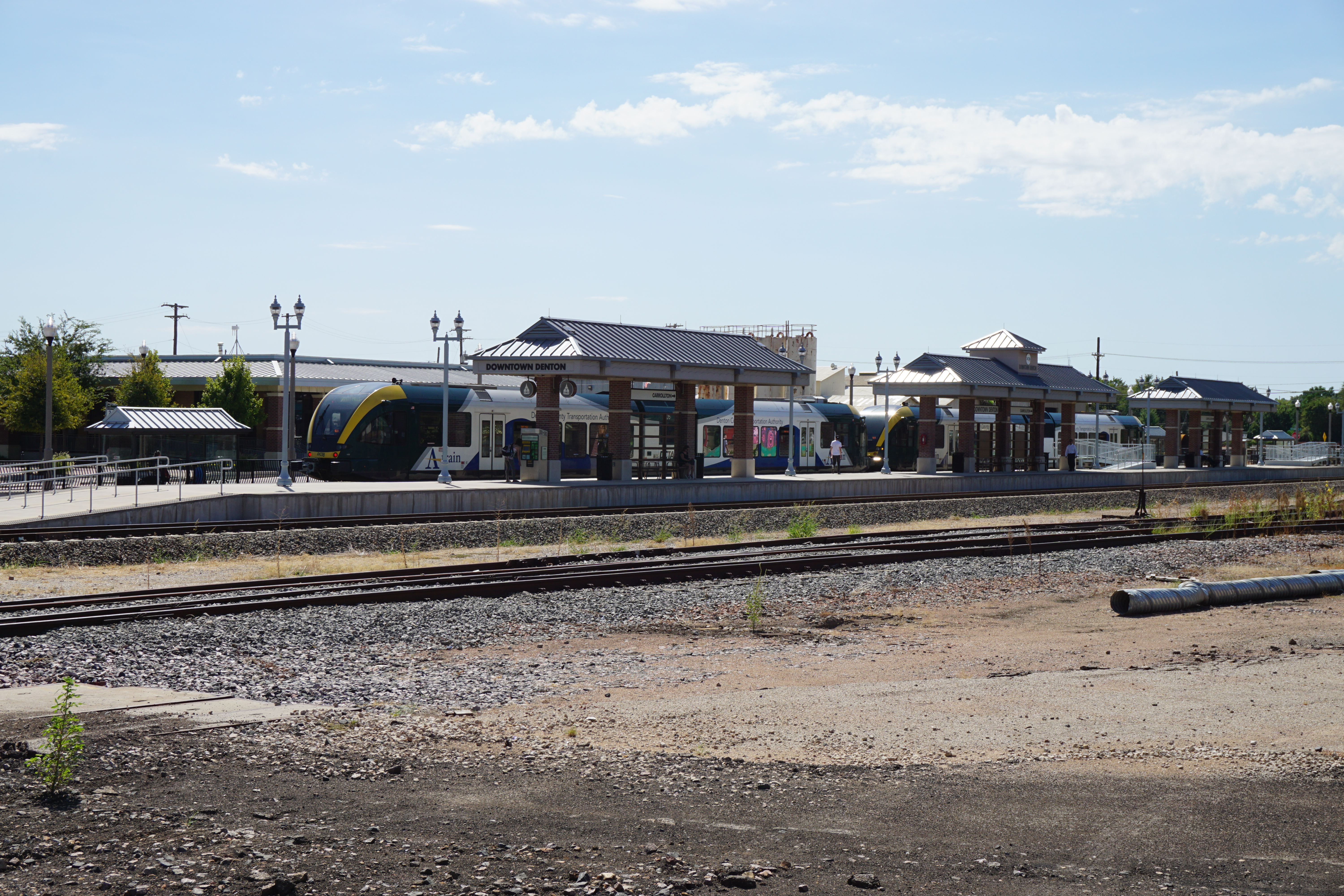 The DCTA A-train at Downtown Denton Transit Center in Denton, Texas (United States).